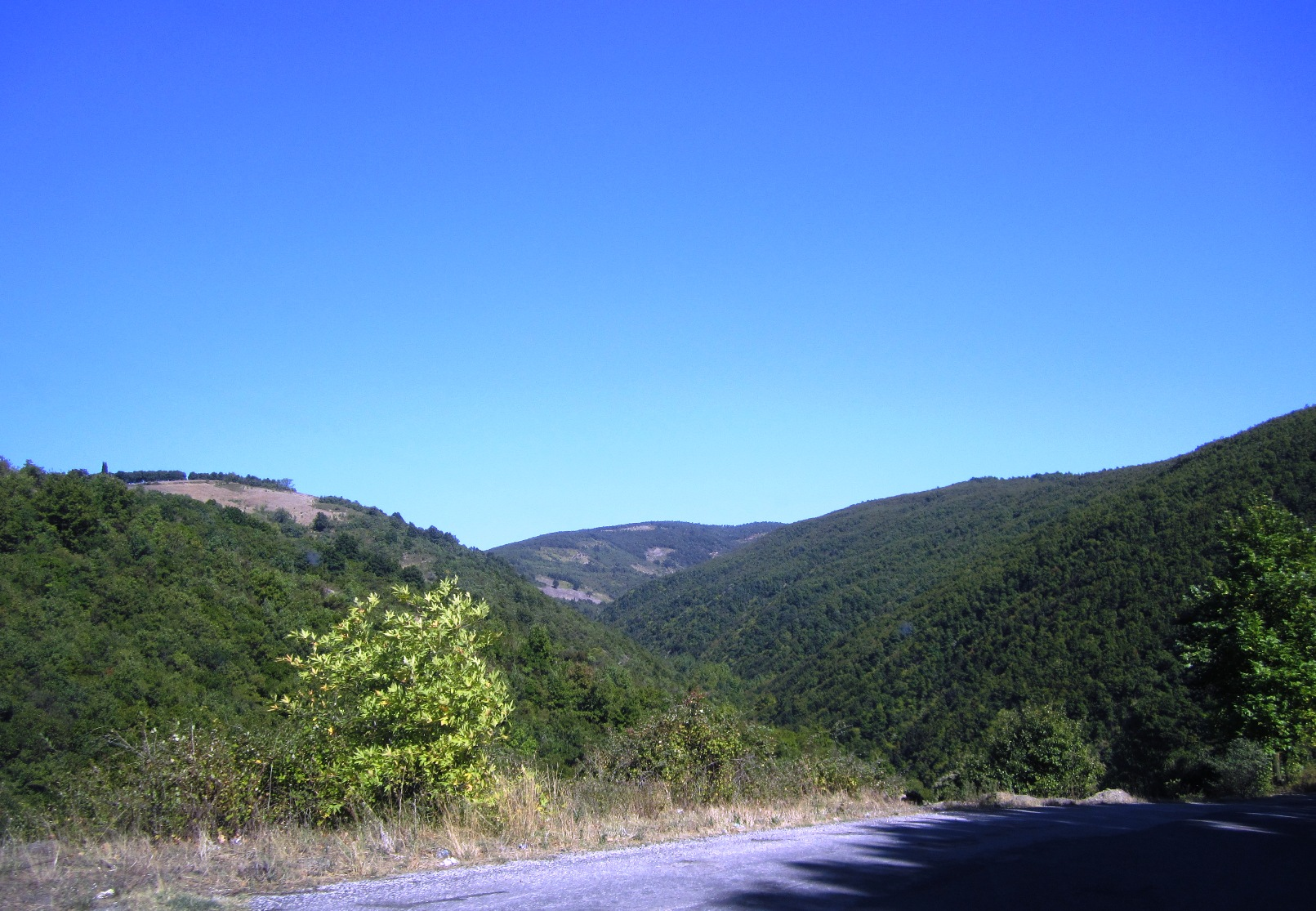 Forrest in Karamürsel